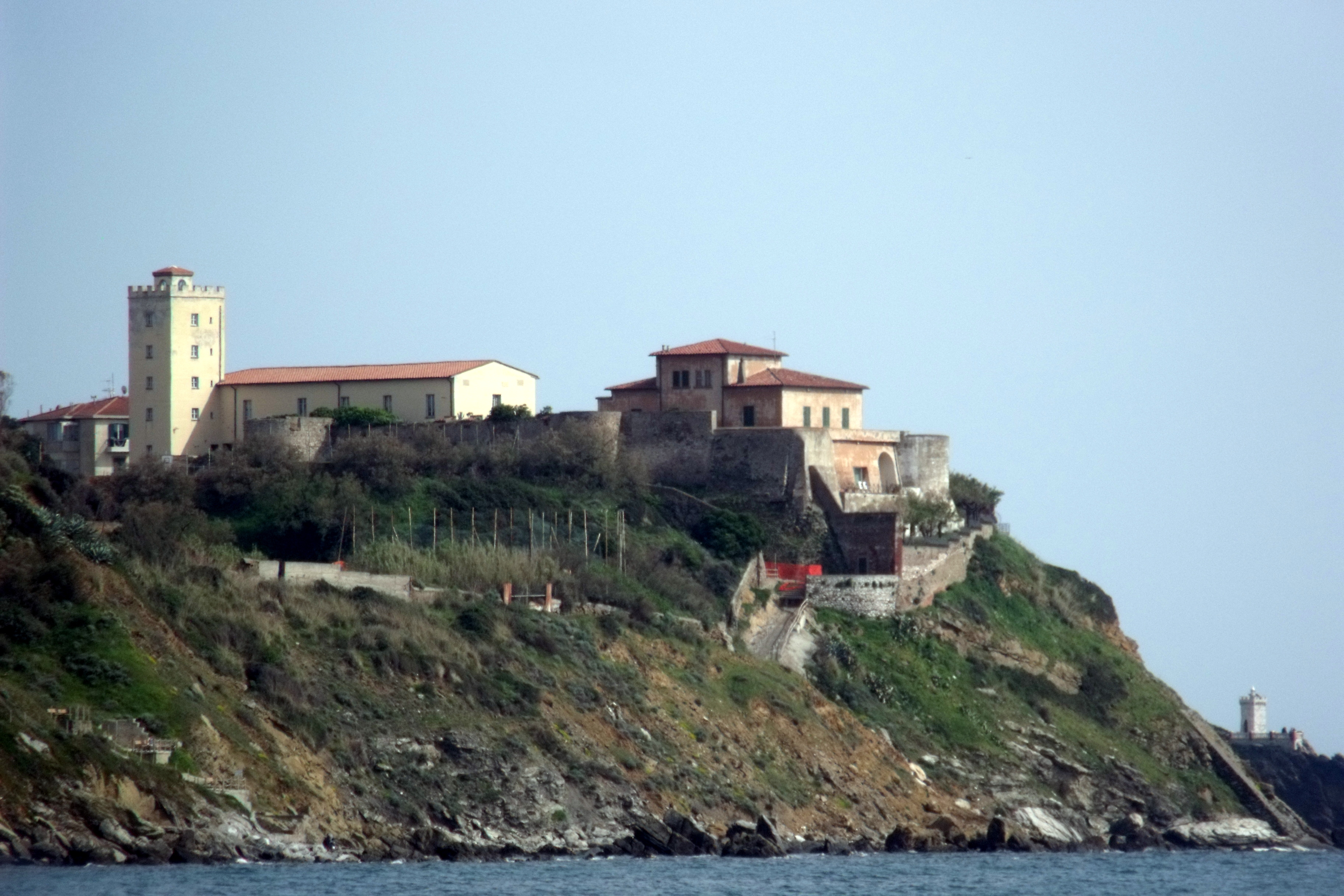 Cittadella (Citadel) of Piombino, seen from Salivoli, Piombino, Province of Livorno, Tuscany, Italy